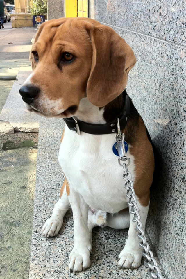 My special Beagle